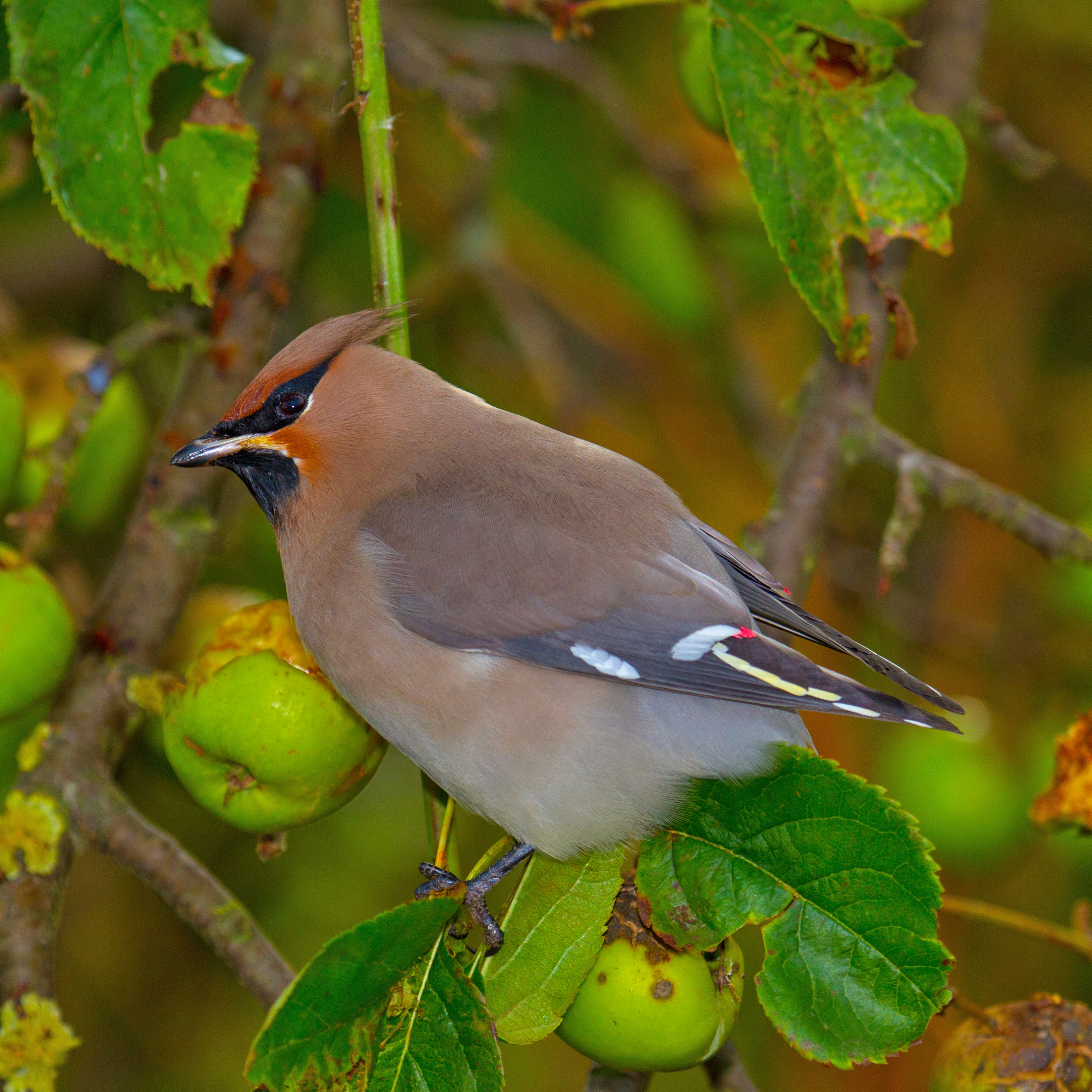 Bohemian Waxwing